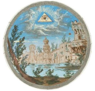 Coat of Arms of Stakliškės city in 1791